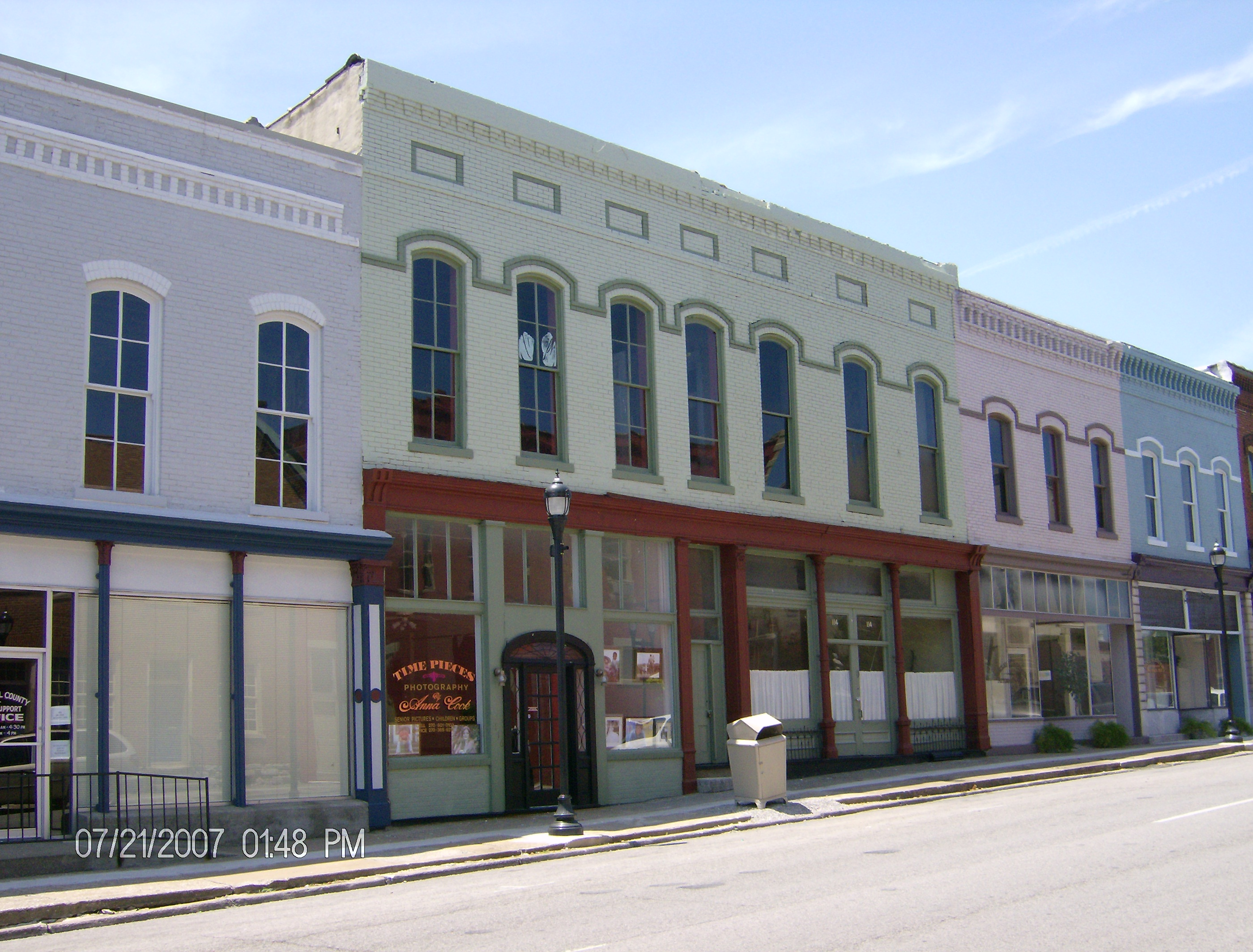 This is 114-116 East Main Street (the green building) in Princeton, KY. It is on the National Register of Historic Places.